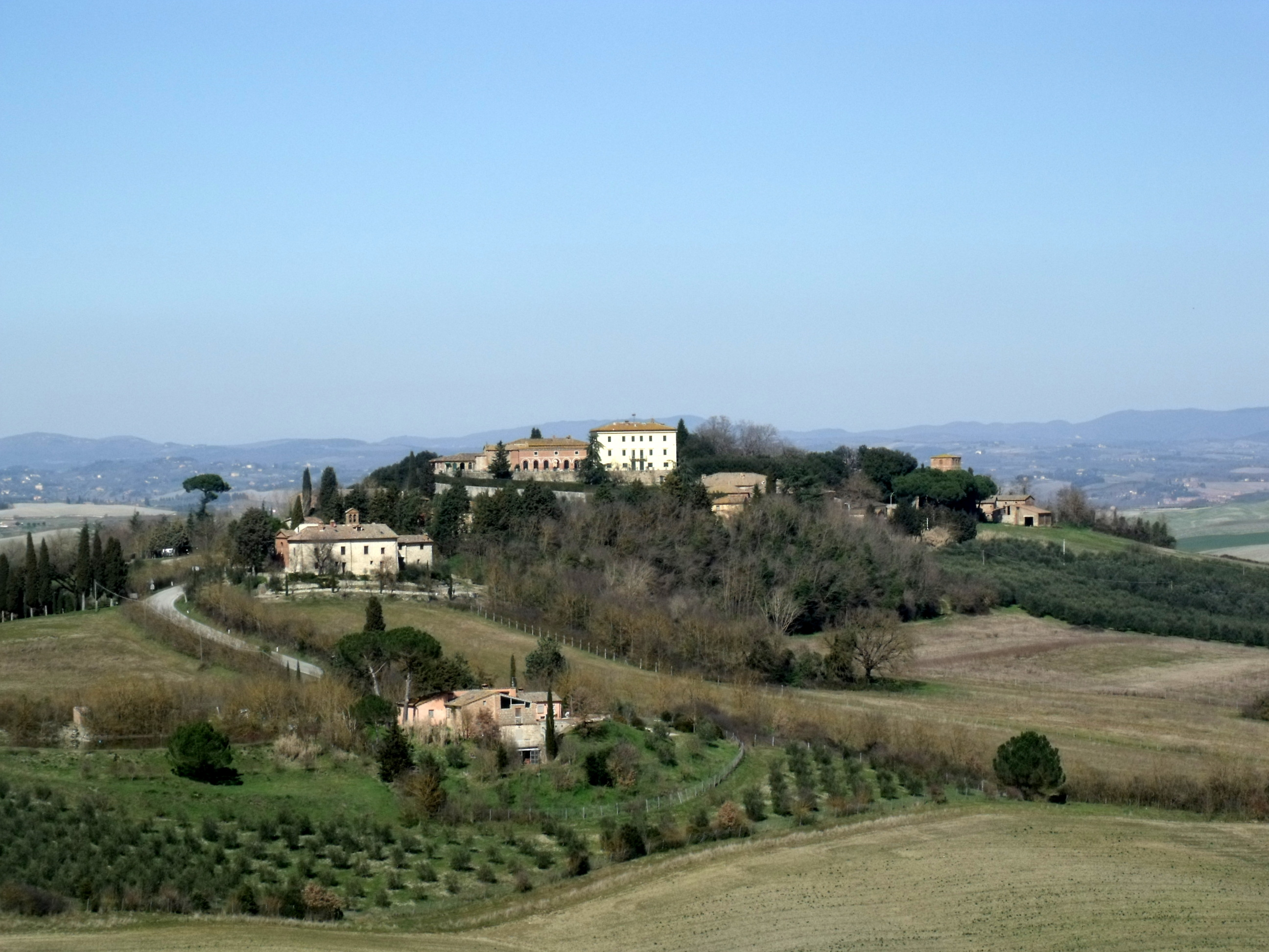 Radi (Radi in Creta), hamlet of Monteroni d’Arbia, Val d’Arbia/Creti Senese, Province of Siena, Tuscany, Italy